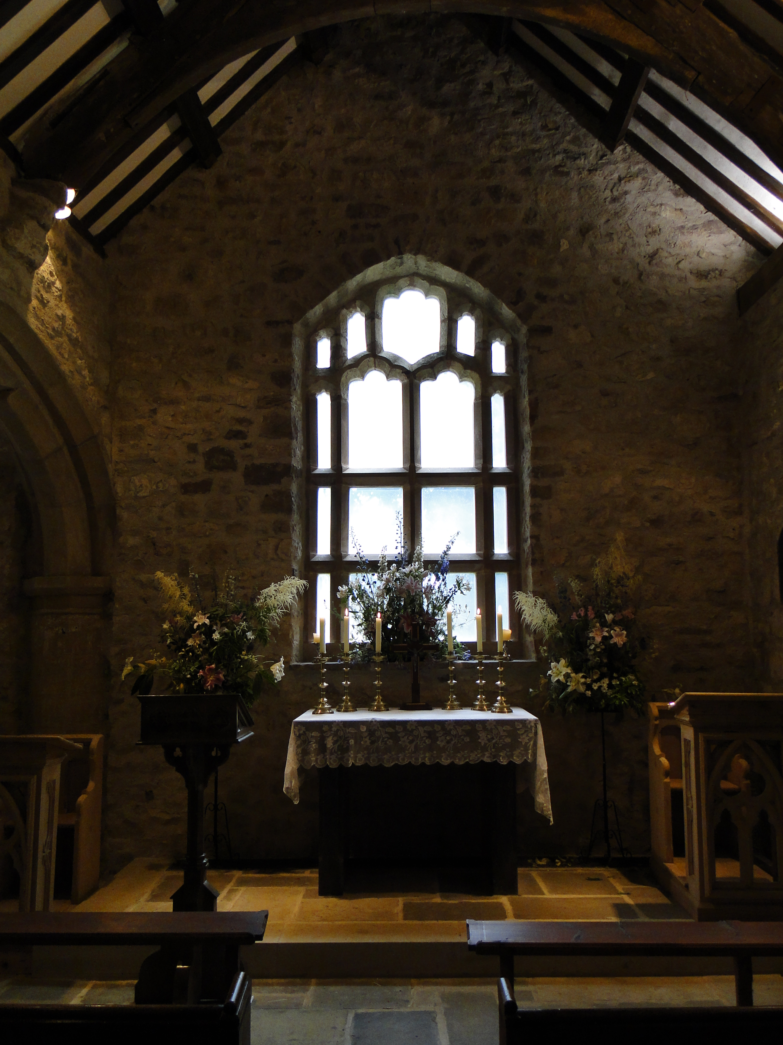 Interior shot of Llanidan old church